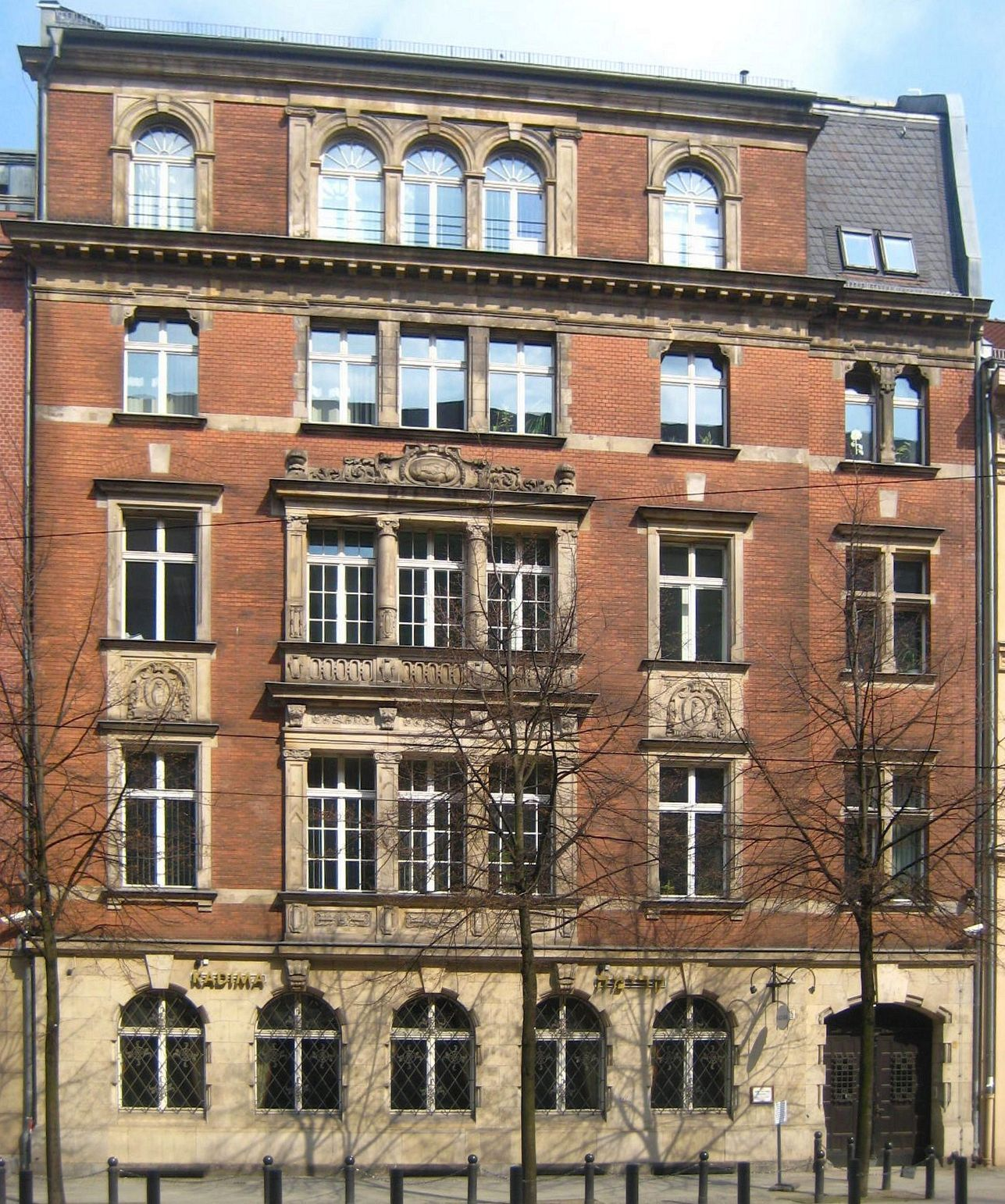 Administration building of the Jewish Community Berlin at Oranienburger Straße No. 28 in Berlin-Mitte. The building was constructed from 1908 to 1909. It has been designated as a historic landmark.